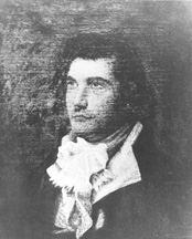 From the Biographical Directory of the United States Congress.